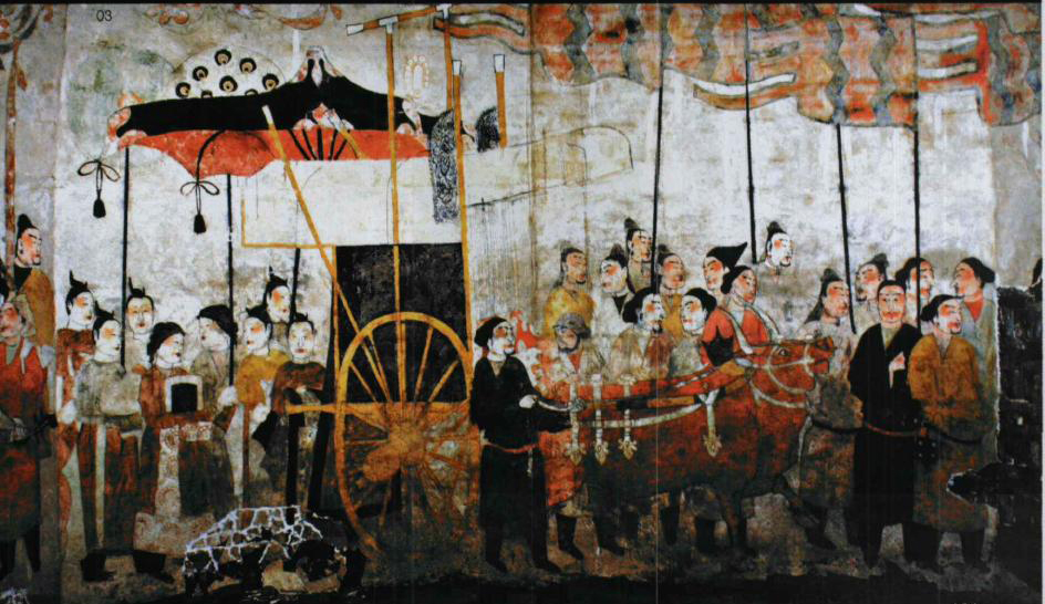 Paintings on east wall of Xu Xianxiu's Tomb of Northern Qi Dynasty